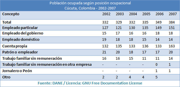 Ocuped population in Cúcuta, Colombia [2002-2007]